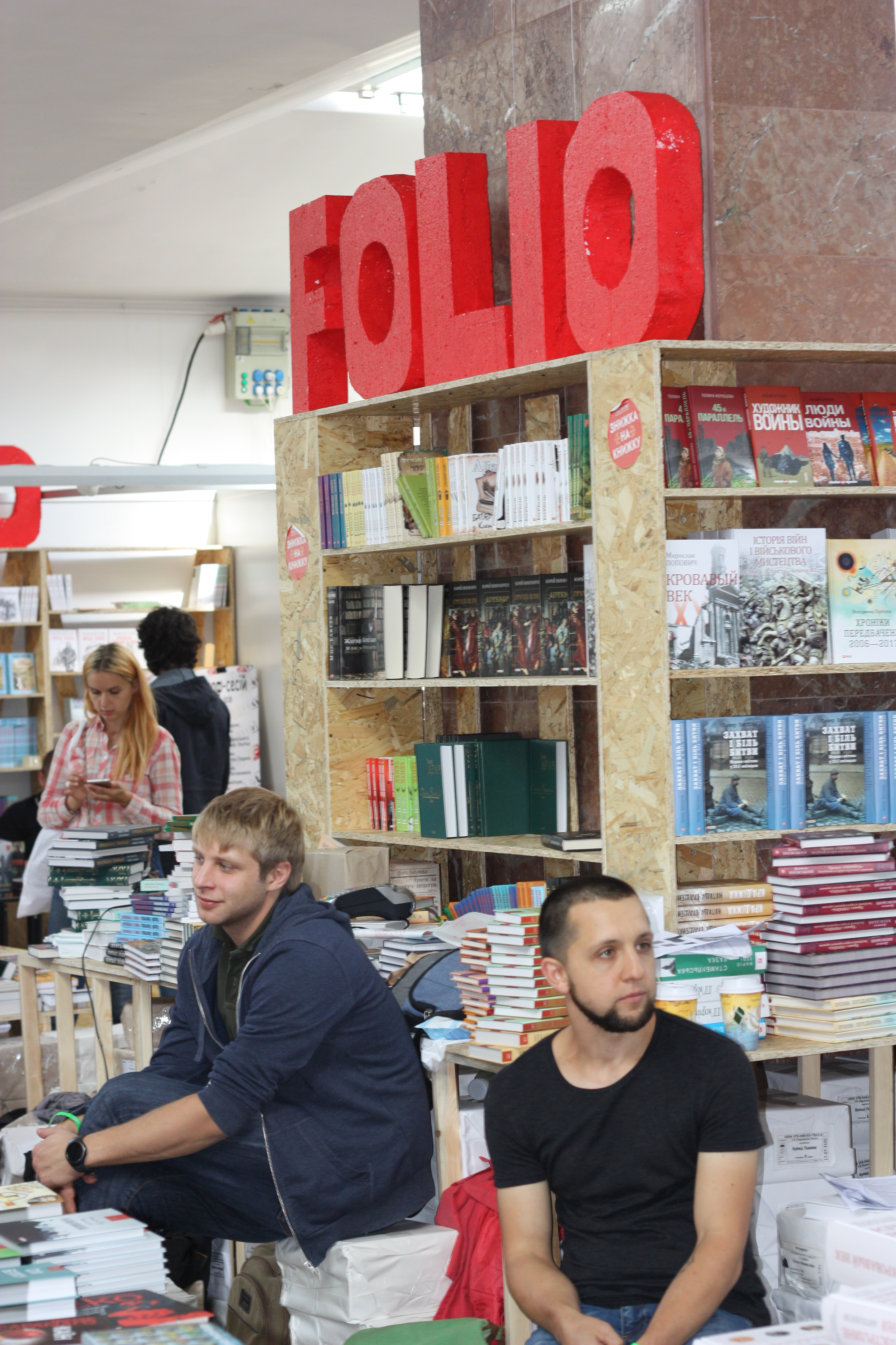 Publishers' Forum in Lviv 2017